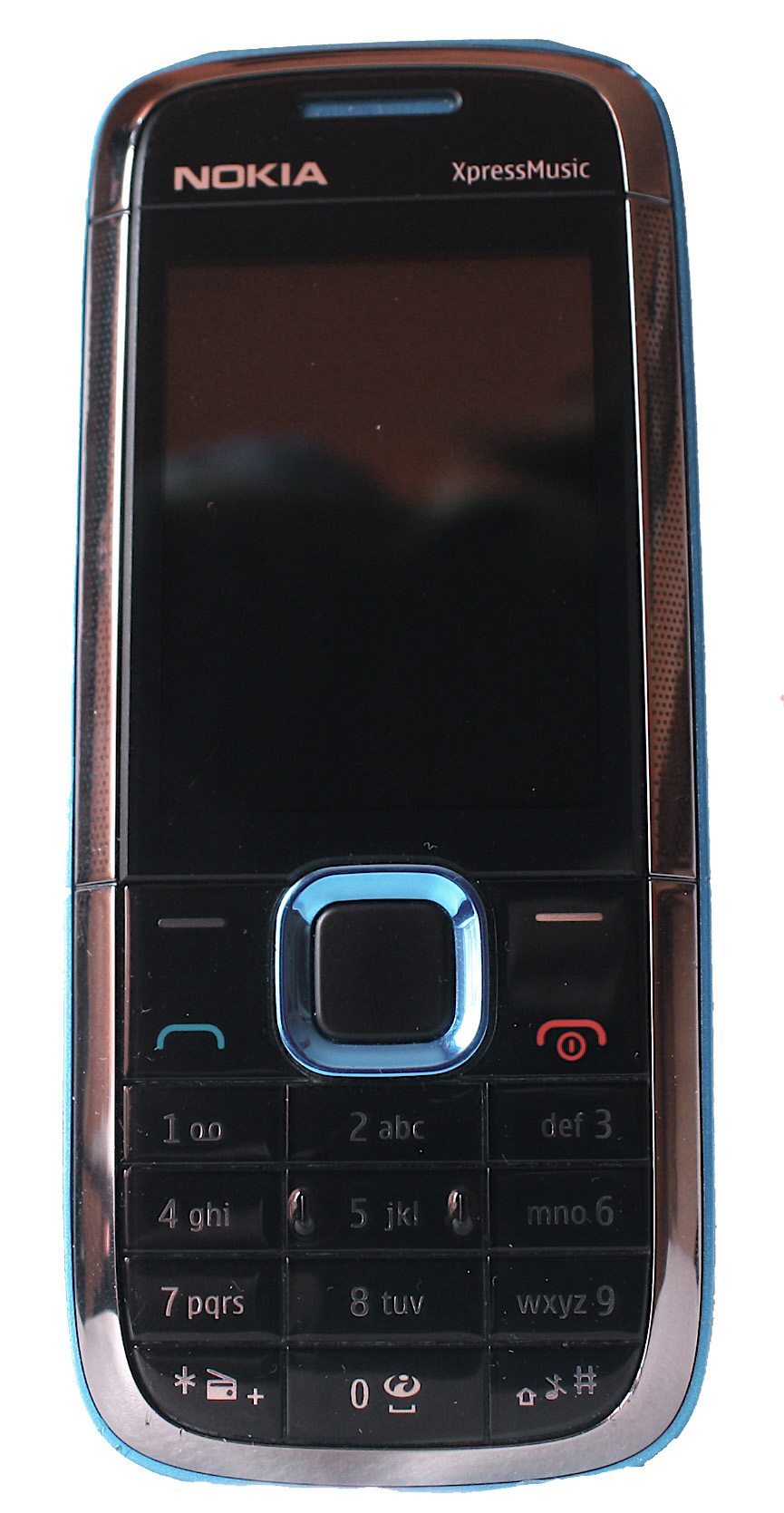 A Nokia mobile phone, model 5130 XpressMusic.